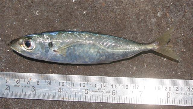 Decapterus punctatus collected in, Mudasalodai, Tamil Nadu, India.